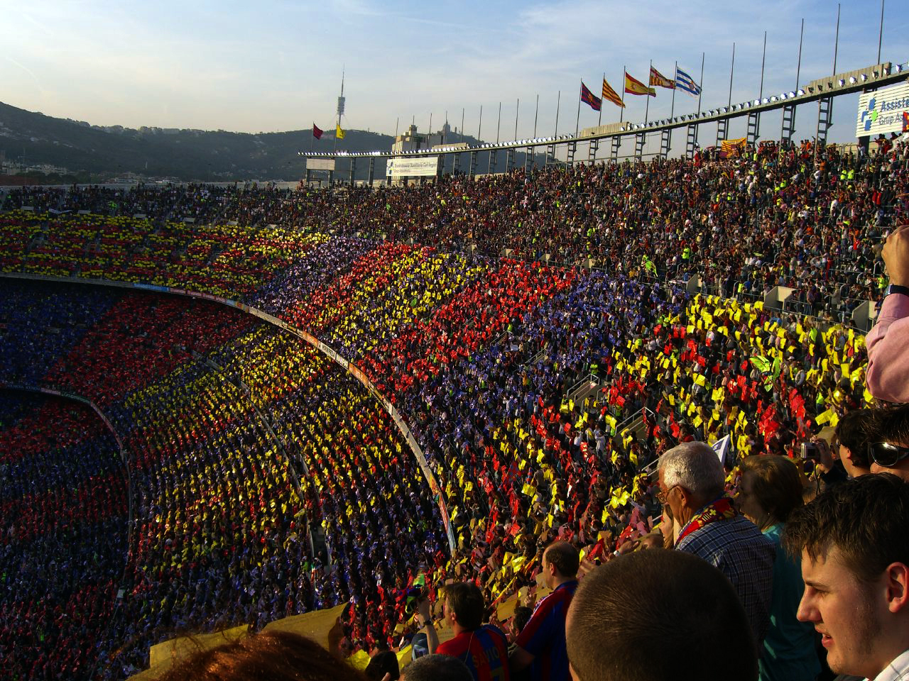 Tifo at Camp Nou in Barcelona